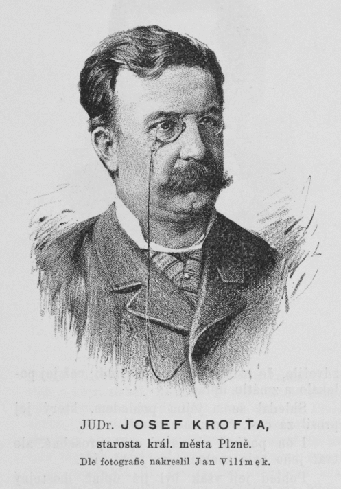 Portrait of Josef Krofta (1845-1892), mayor of Pilsen.